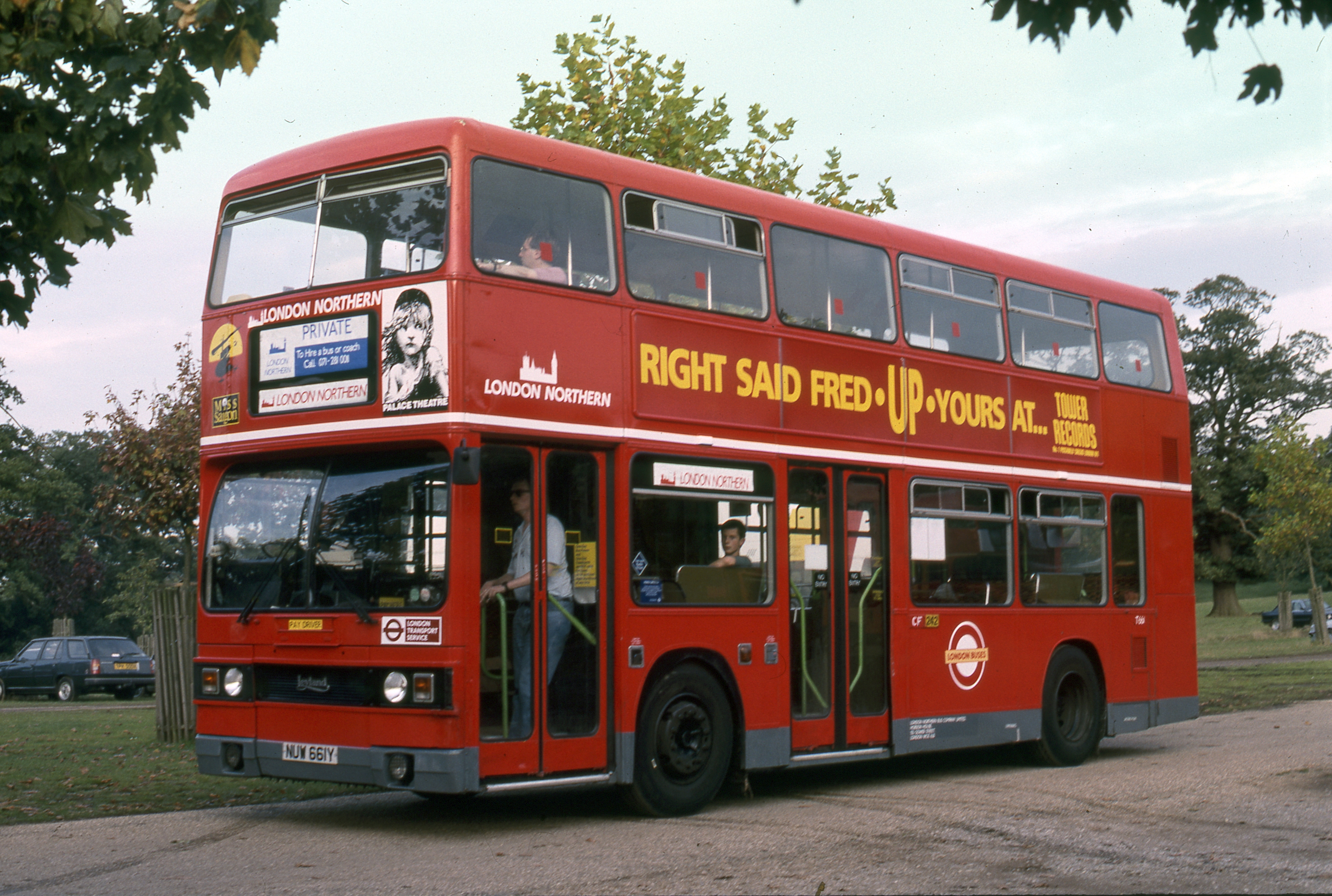 London Northern Leyland Titan (B15) T661 (NUW 661Y) at Woburn Abbey, mid 1992.